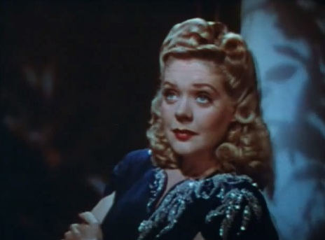 Alice Faye in the film Week-End in Havana (1941) - trailer (cropped screenshot)